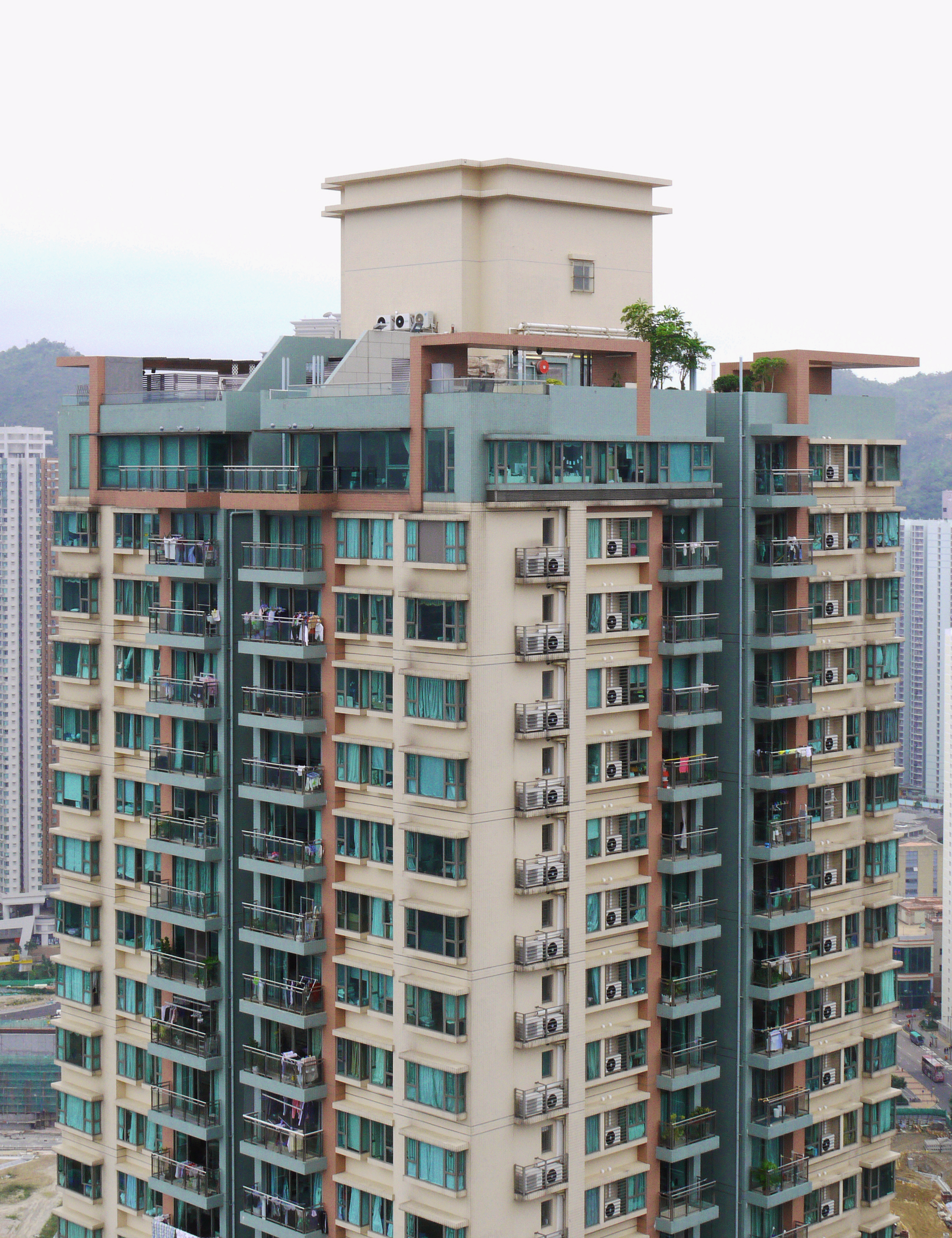 Top treatment of Parl Central Tower 13